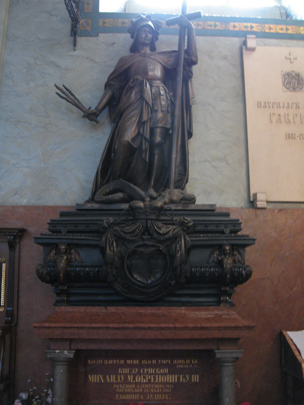 Grave of Mihailo Obrenović III in Belgrade Cathedral